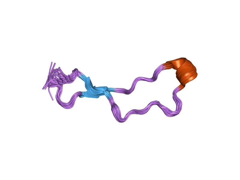 Cartoon representation of the molecular structure of protein registered with 1k91 code.